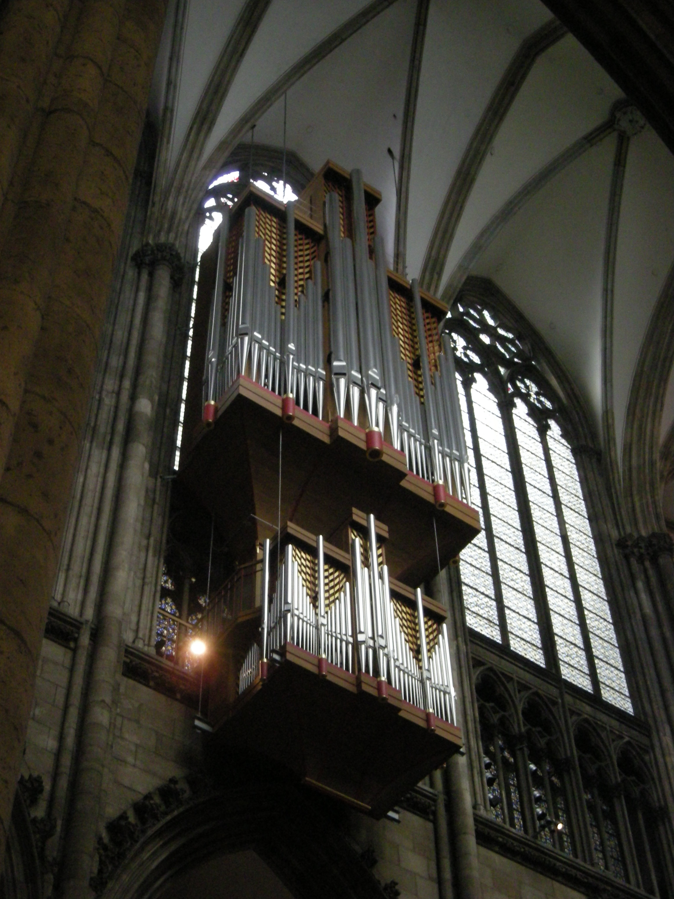 An organ inside the Kölner Dom in Köln, Nordrhein-Westfalen (Germany).